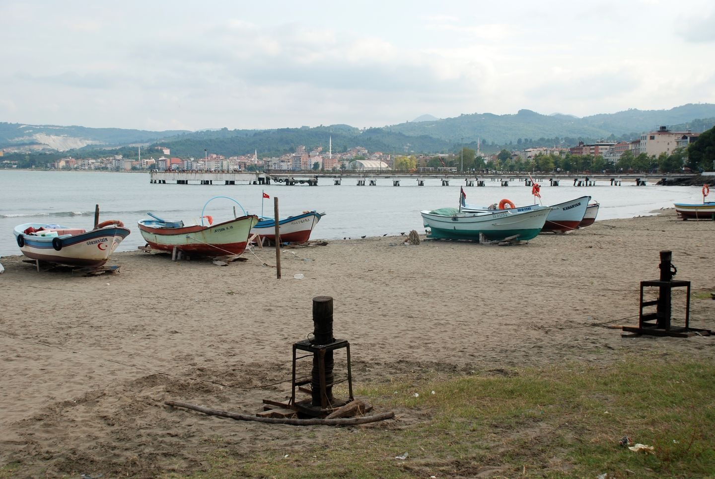 Ünye, Turkey, fishing harbour